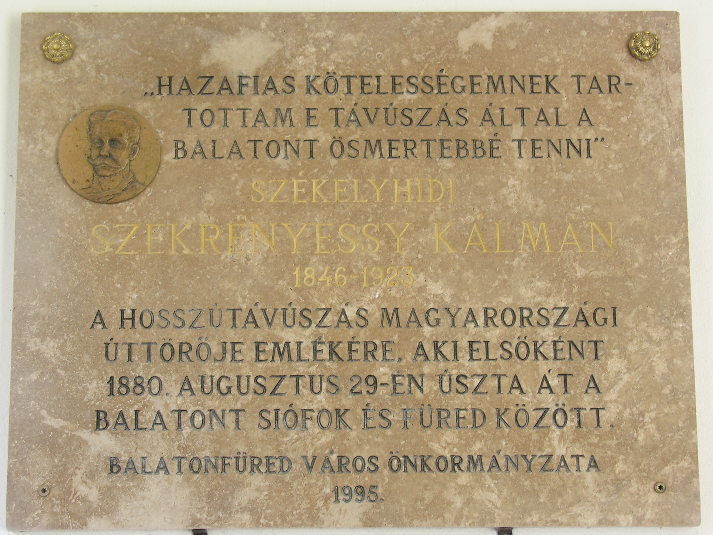 Commemorative plaque of Kálmán Szekrényessy in Balatonfüred, Gyógy Square No 1